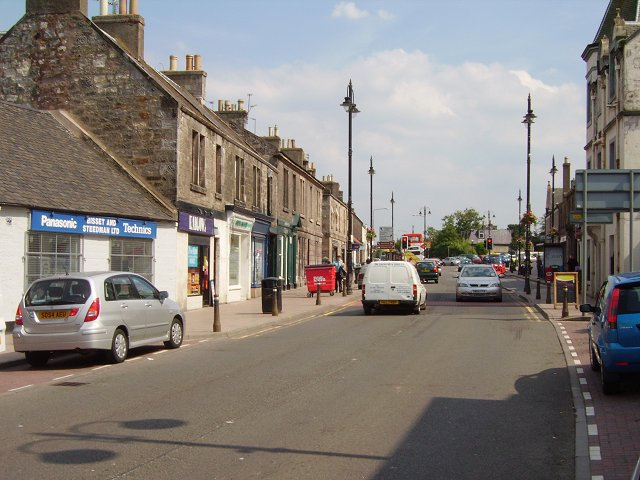 High Street, Tranent. Once, and quite recently, the A1.